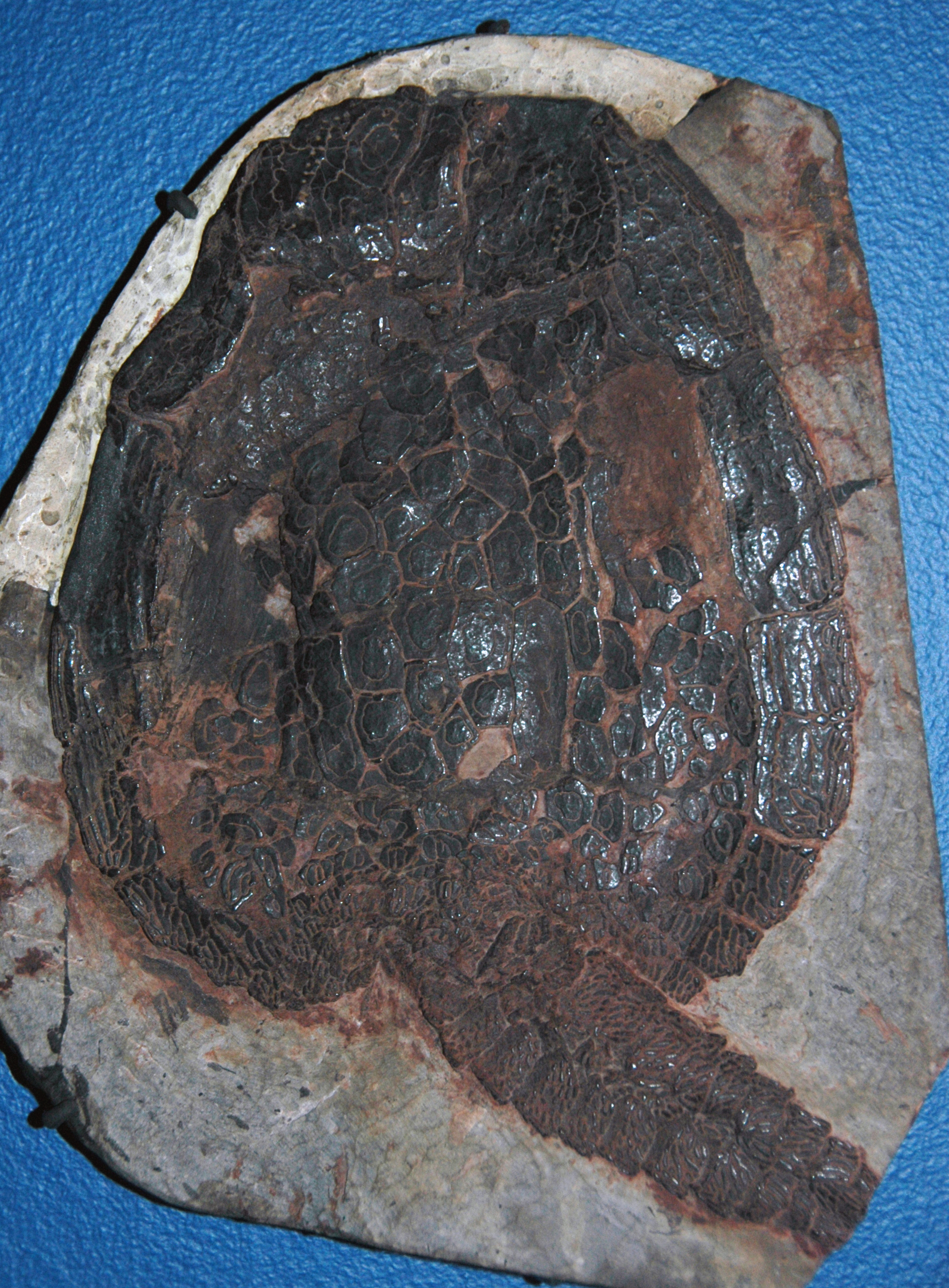 Cardipeltis bryanti Denison, 1966 fossil fish from the Devonian of Wyoming, USA (public display, FMNH PF 3895, Field Museum of Natural History, Chicago, Illinois, USA). This fossil jawless fish from the Lower Devonian Beartooth Butte Formation, from an outcrop in the western flank of the Bighorn Mountains, northern Wyoming, USA. Cardipeltis is an agnathan fish with a bony exoskeleton. Agnathans are jawless, and represent the oldest-known, ancestral fish group. Agnathans are still alive today - they include the hagfish. Early agnathans with bony exoskeletons are often called ostracoderms. The fossil shown here is a rare, articulated specimens of Cardipeltis - the ventral (underside) surface is exposed. The elongated structure at the bottom of the specimen is the tail. Cardipeltis has a dorso-ventrally compressed body, consistent with a benthic swimming lifestyle. Classification: Animalia, Chordata, Vertebrata, Agnatha, Heterostraci/Pteraspidiformes, Cardipeltidae